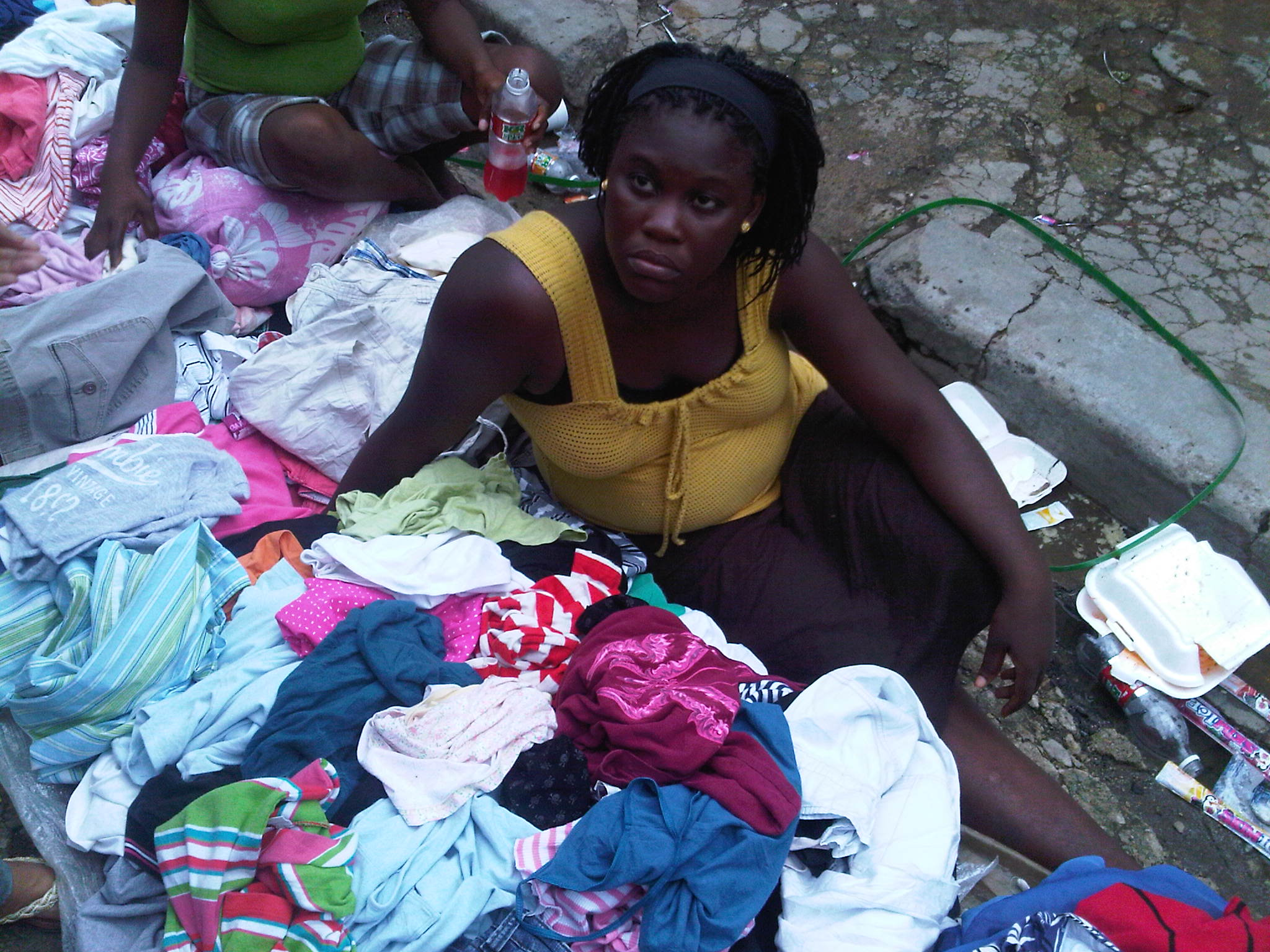 Haitian woman selling goods in the bi-national market, Dajabón, Dominican Republic.